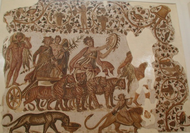 Triumph of Bacchus. Ancient Roman mosaic, Sousse Museum (Tunisia).